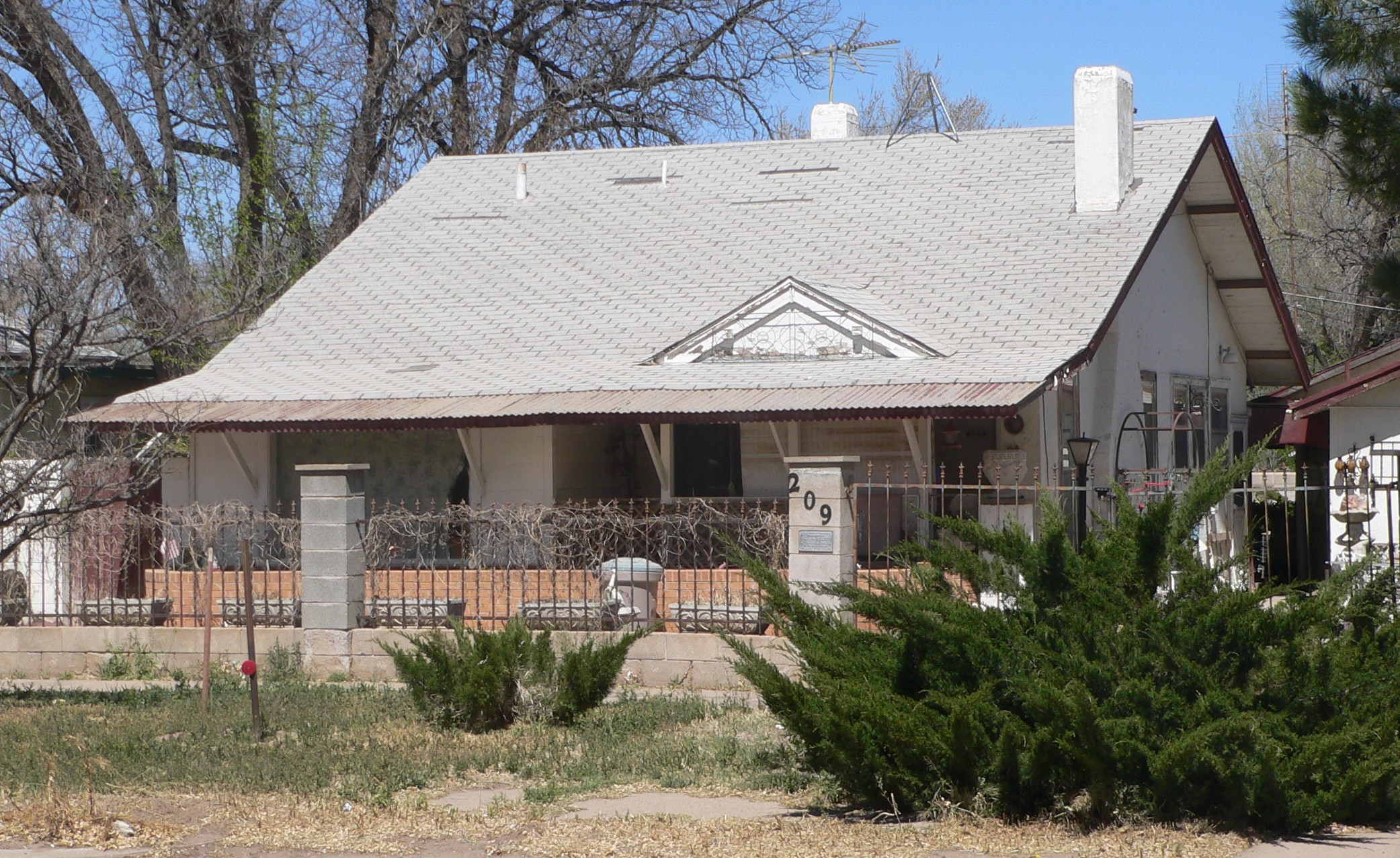 Louise Massey house, at 209 W. Alameda Street in Roswell, New Mexico; seen from the southeast.